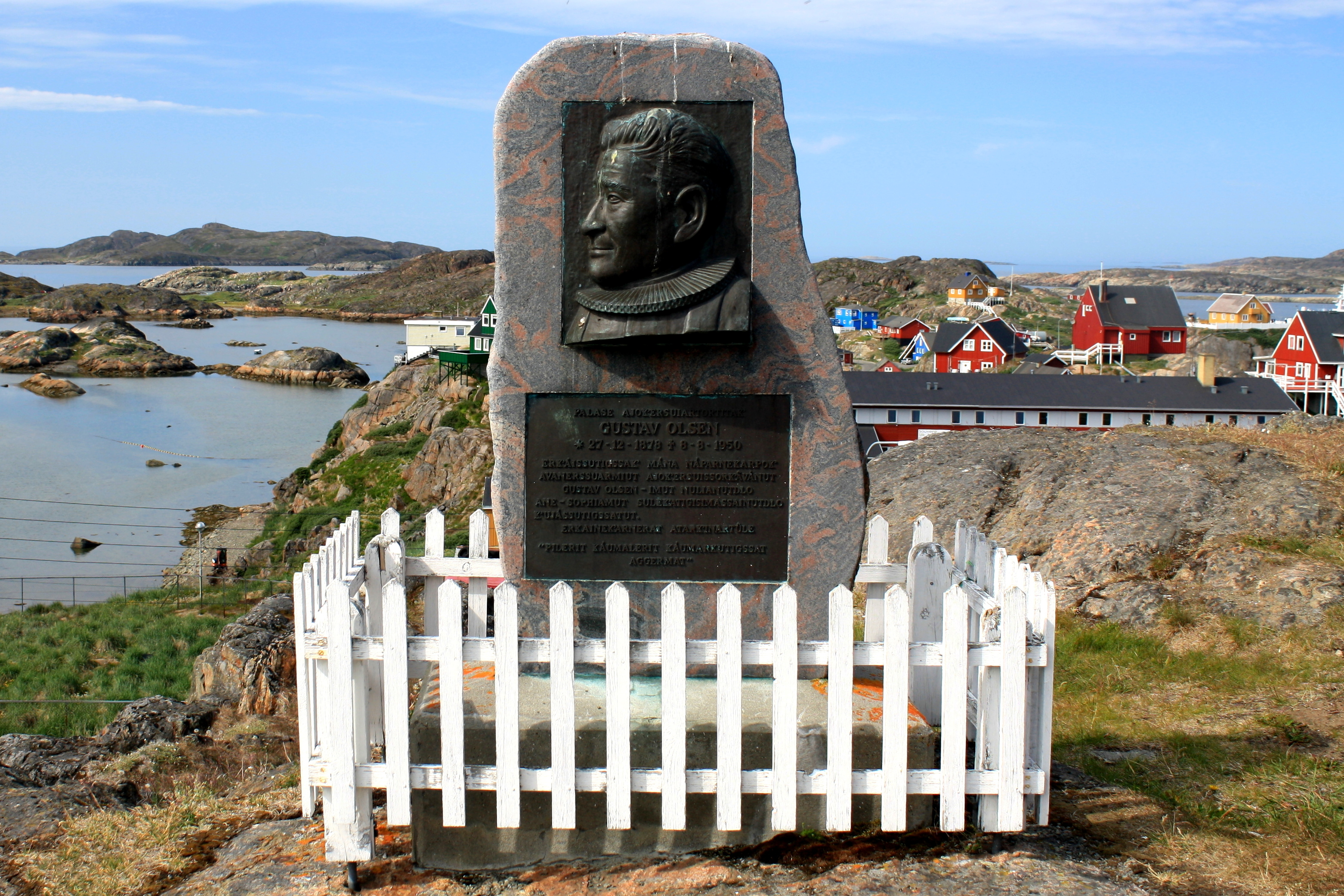 The Gustav Olsen memorial stone in Sisimiut, Greenland.